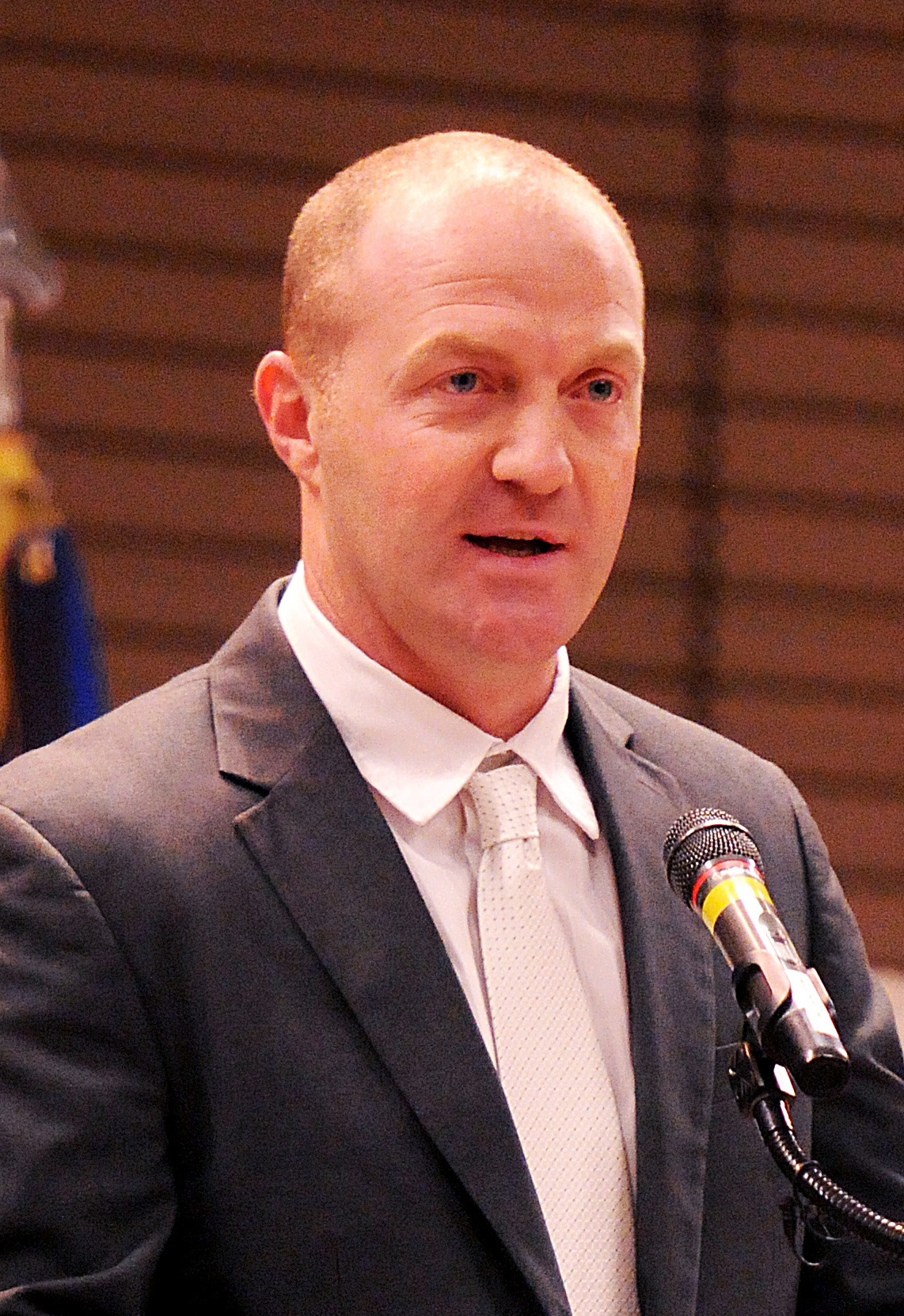 Former National Football League player and author Josh Bidwell, speaks to Oregon National Guard Youth Challenge Program cadets during their graduation ceremony in Redmond, Ore., Dec. 14. Bidwell related to the cadets by sharing personal stories of his youth, and how he overcame his own challenges. He congratulated the cadets on their accomplishments and encouraged them to continue the positive changes after leaving the program. Program graduates receive instruction in values, self-discipline, education, and life skills necessary to succeed as productive citizens, in addition to earning a G.E.D. (Photo by Sgt. Zach Holden, 115th Mobile Public Affairs Detachment).